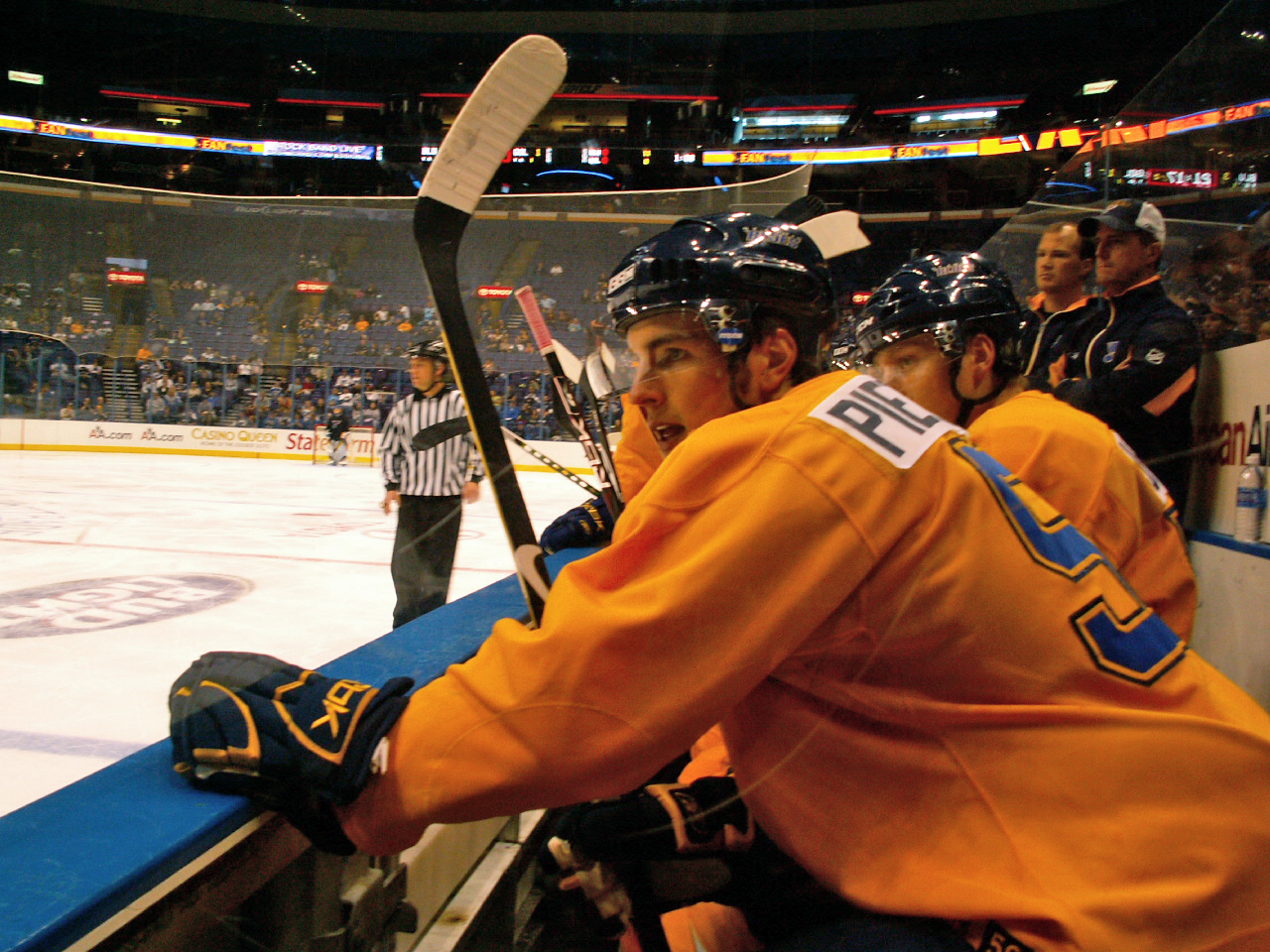 Alex Pietrangelo at the 2008 Blues FanFest.